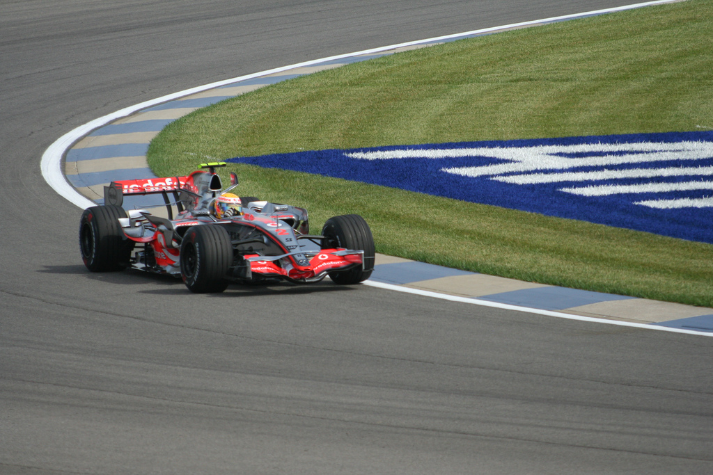 United States Grand Prix, Formula 1, Summer 07